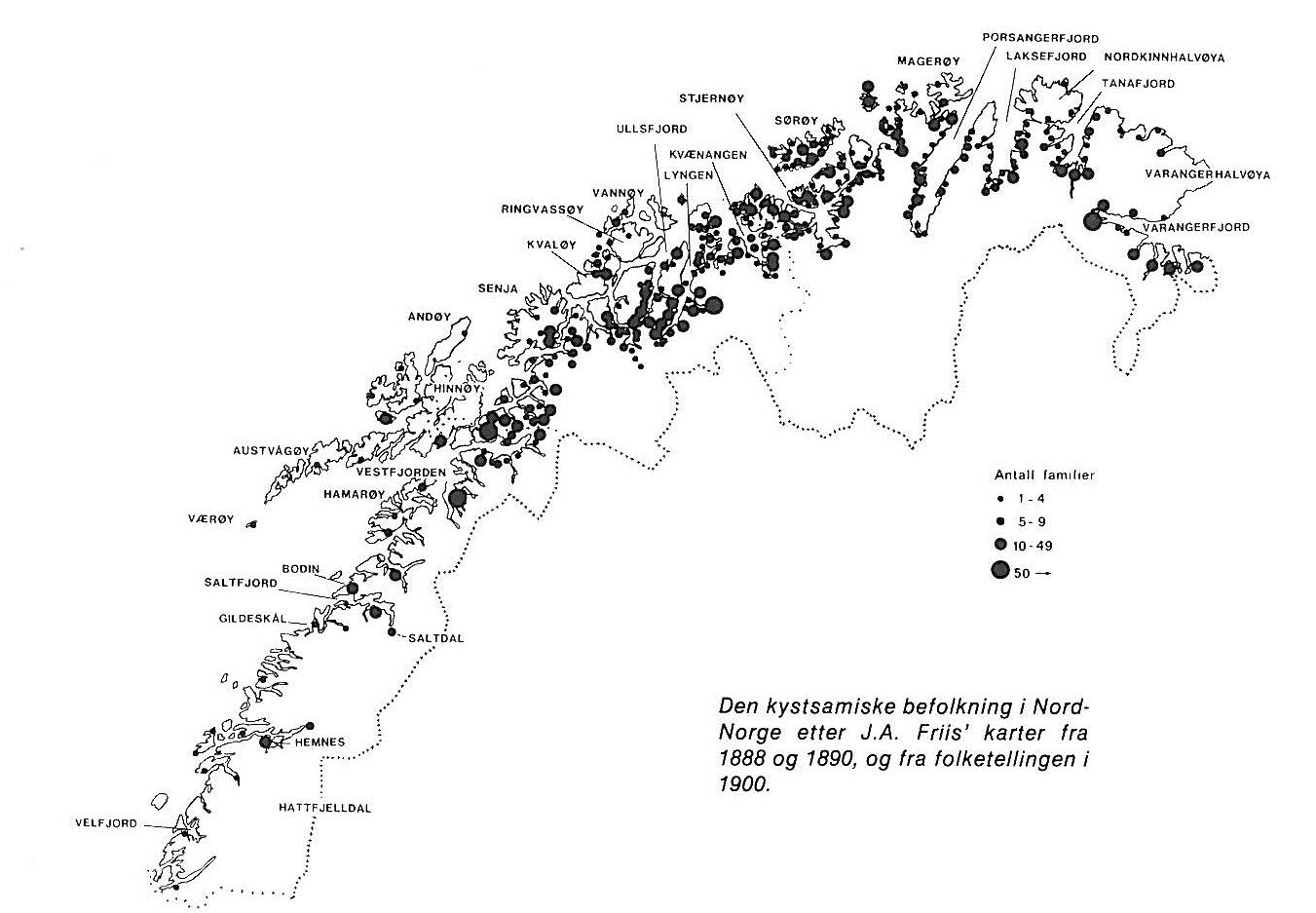 The coastal sami population in Northern Norway anno 1888/1900, according to maps drawn by Jens Andreas Friis in 1888 and 1890, and the 1900 census